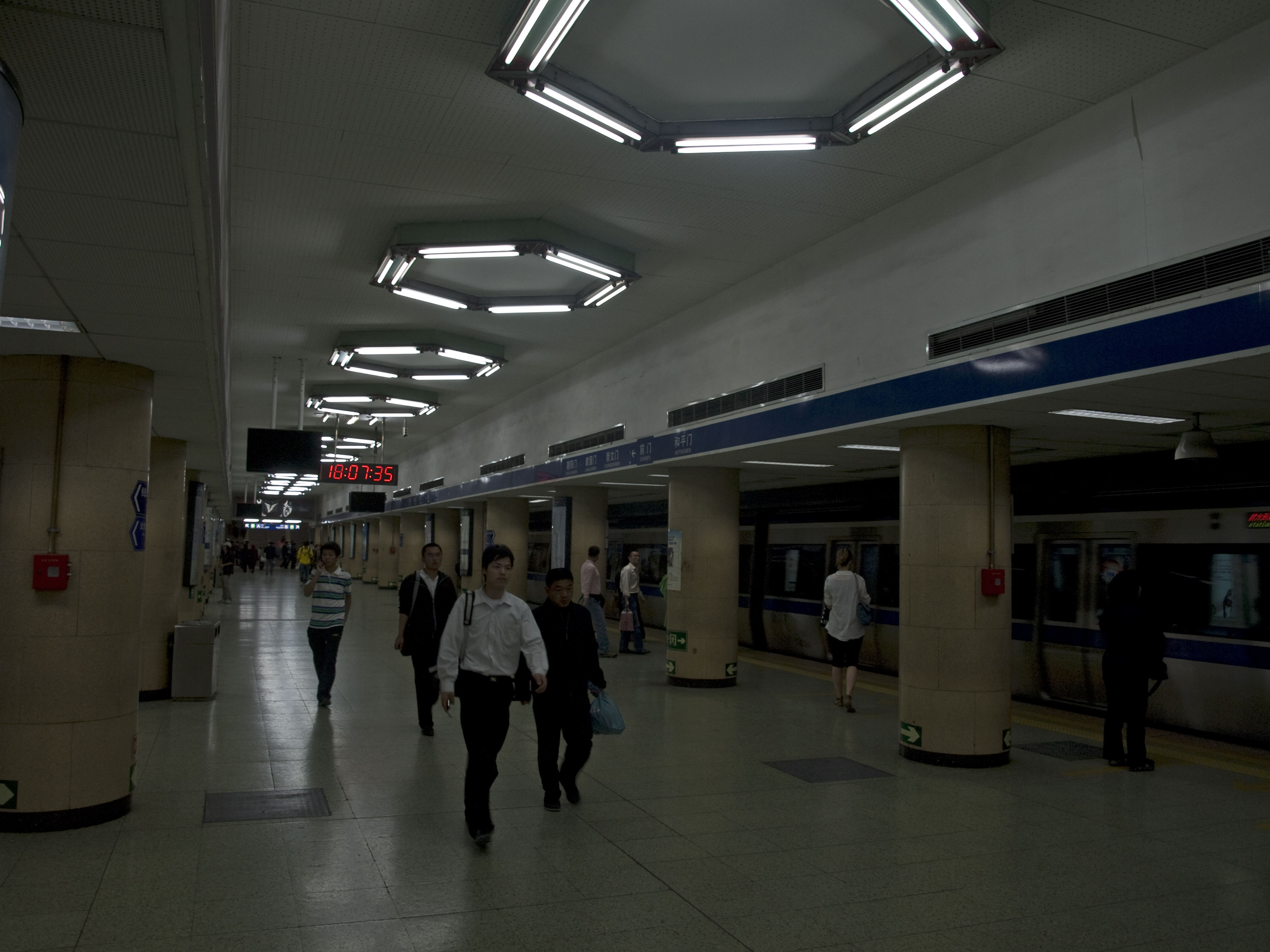 Qianmen station, Beijing Subway